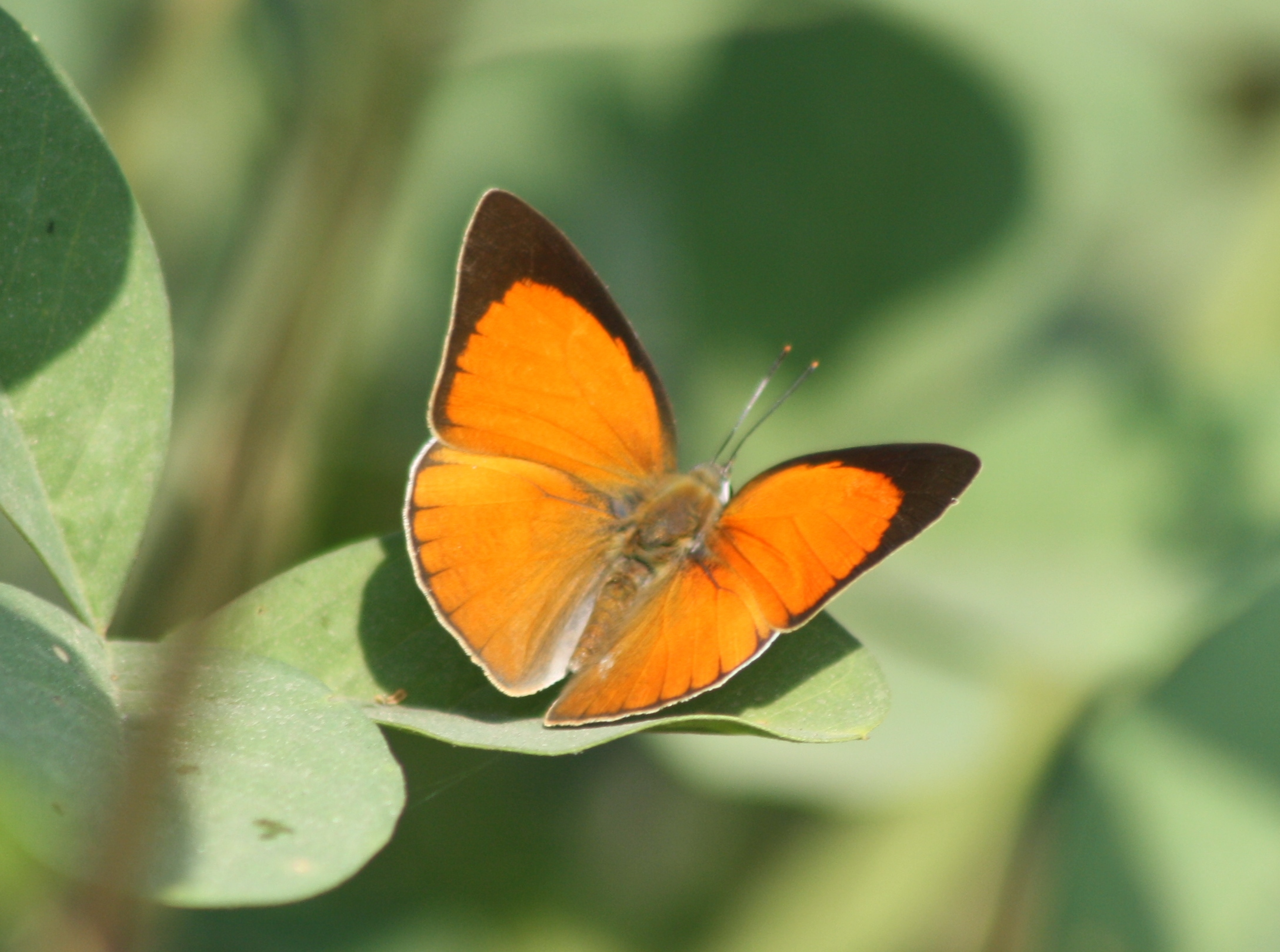 Indian Sunbeam Curetis thetis Male Kalyan Creek Thnae Maharashtra